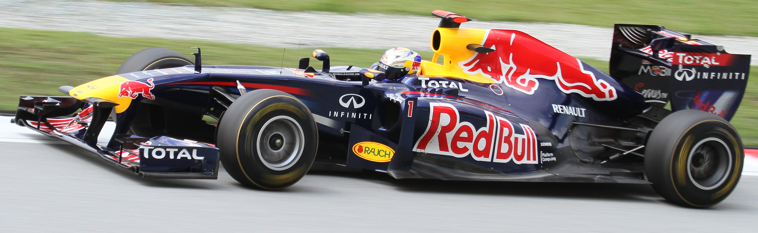 Formula One 2011 Rd.2 Malaysian GP: Sebastian Vettel (Red Bull) during the second practice session on Friday.